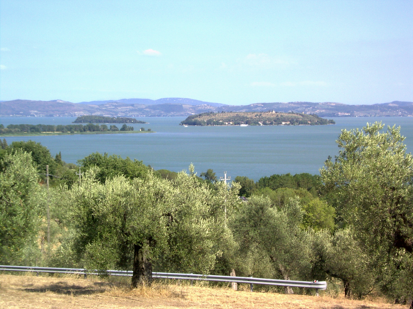 Maggiore and Minore Isles, seen by Puntabella, near Borghetto, an evening in July 2007. One of the two bigger ferry-boats is visible near Maggiore.